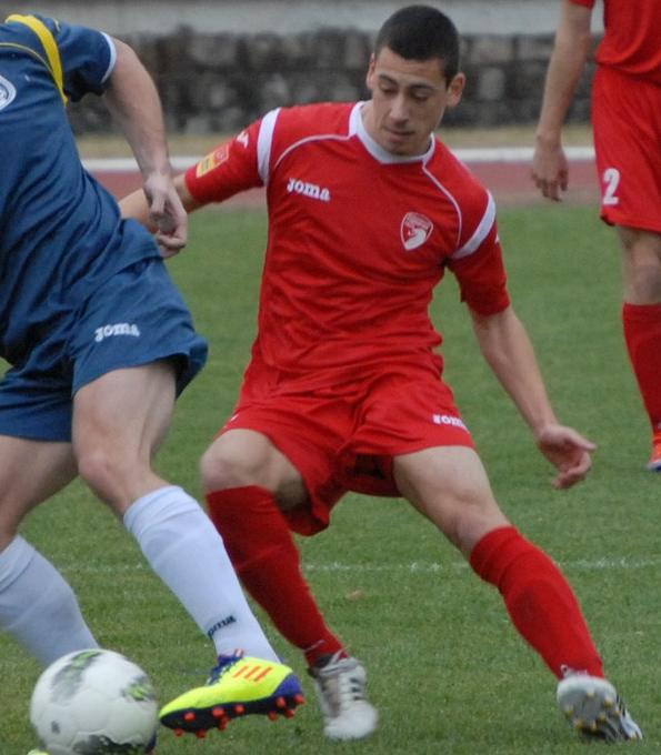 Igor Krmar playing for Serbian Radnicki Kragujevac in 2012